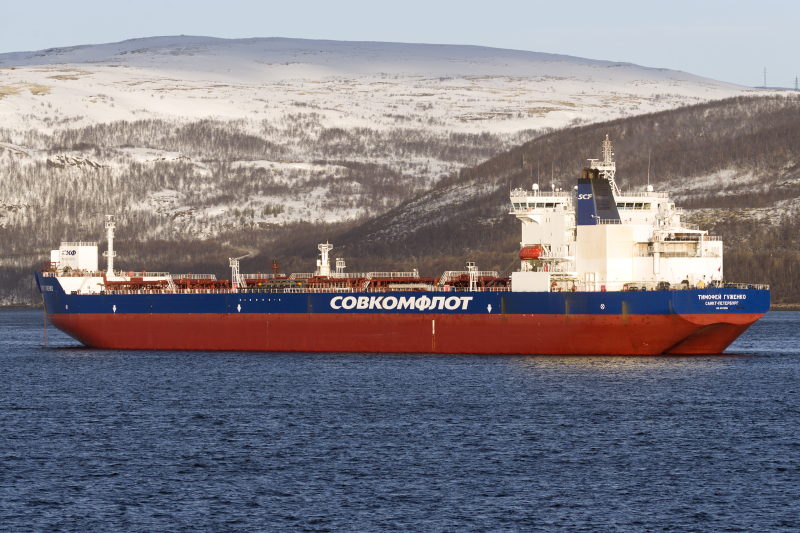 There's an American documentary that begins with the words "Through the icy waters of the Arctic ocean sails the icebreaking oil tanker Timofey Guzhenko..."